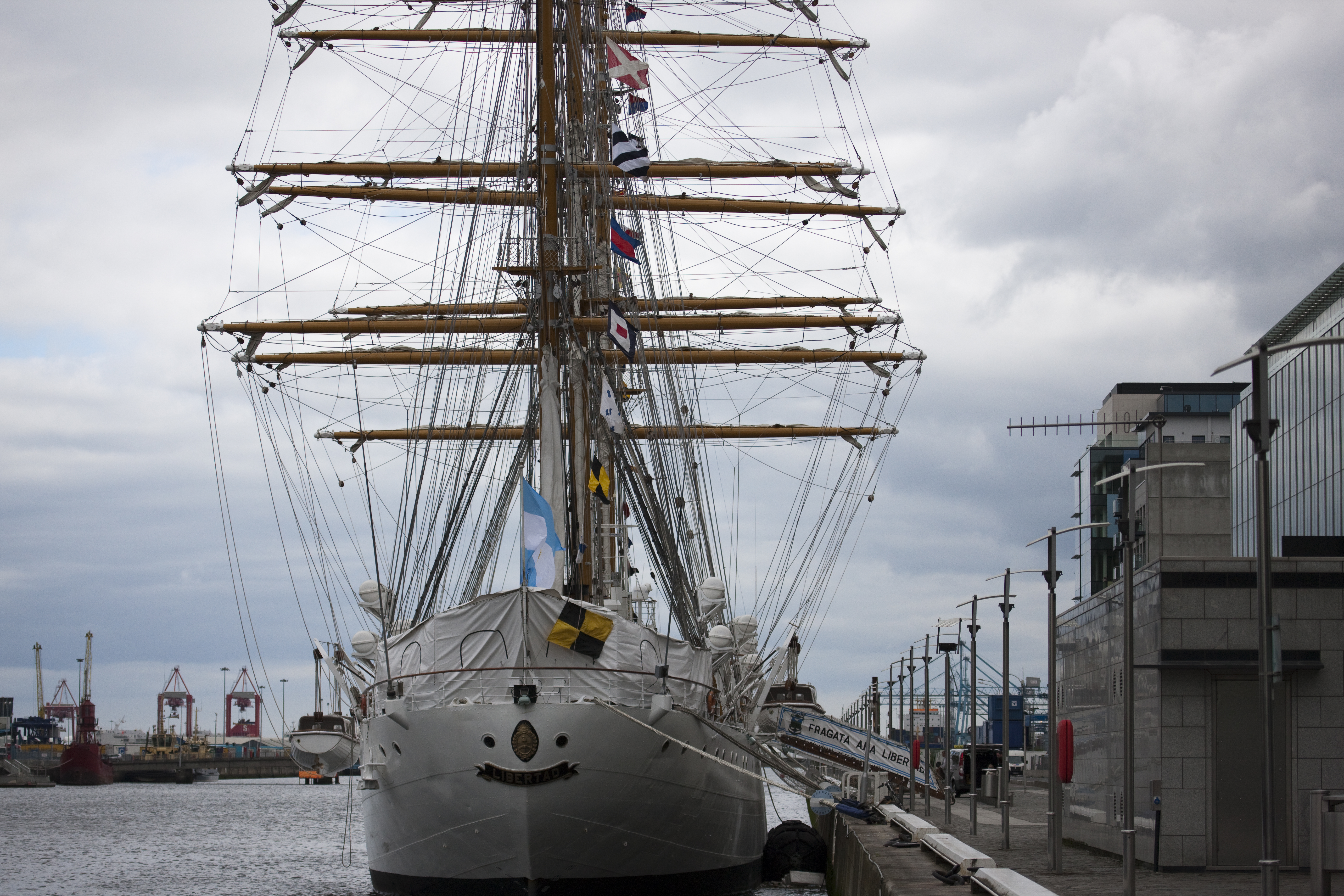 ARA Libertad (Q-2) is a tall ship which serves as a school ship in the Argentine Navy. She was built in the 1950s at the Rio Santiago shipyards near Buenos Aires, Argentina. Her maiden voyage was in 1962, and she continues to be a school ship with yearly instruction voyages for the graduating naval cadets. She has just finished (April 2007) undergoing a general overhaul which includes the addition of facilities for female cadets and crew in line with current diversity policies in the Navy and the updating of the engines and navigation technology. Her main characteristics are: Length (including bowsprit): 103.75m; Beam: 14.31m; Draft: 6.60m; Displacement: 3765 Tonnes; Masts: 3; Crew: 357 souls (including 150 naval cadets). Rigging: Square rigged. Three masts (Fore, Main and Mizzen with boom) and bowsprit, with double topsails and 5 yardarms per mast, which can balance up to 45 degrees on each side. Five jibs are fixed to the bowsprit, the foremast has 5 square sails and two jibs, the mainmast has 5 square sails and 3 jibs and the mizzen has 5 square sails and a spanker. Sail area: 2.652 sq. metres; max. height of mainmast 56,2 metres. Armament: Four 47 mm cannons, 1891 model, which were transferred from the previous School Ship ARA Presidente Sarmiento used as a salute battery. She won the Boston Teapot Trophy in 1966, 1976, 1981, 1987, 1992 and 1998 In 1966 she established the world record for transatlantic crossing (only sail navigation) between Capr Race (Canada) and Dursey Island (Ireland), 1,741.4 nautical miles (3,225.1 km) in 6 days and 4 hours.